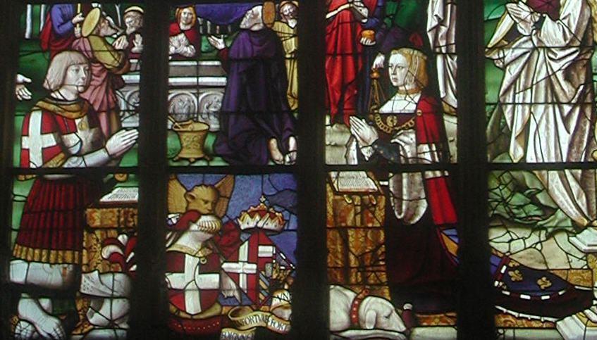 Philibert II of Savoy and